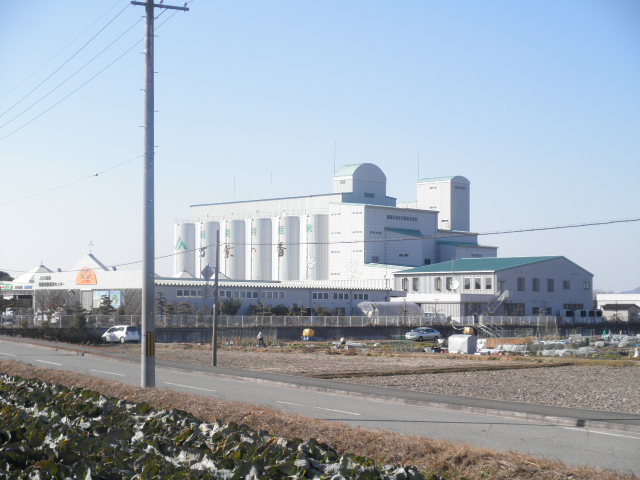 King brewing main office factory